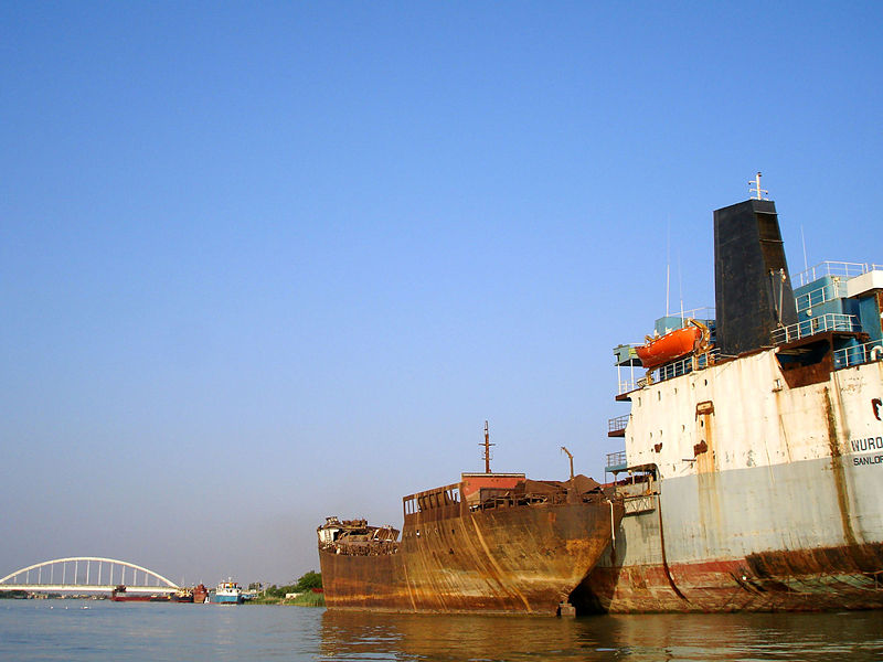 Derelict vessels and a bridge over the Karun in Khorramshahr. Easterly view of the Karoon River at Khorramshahr[1]. Arvandrud-Shatt al-Arab. The image Aziz disputes.